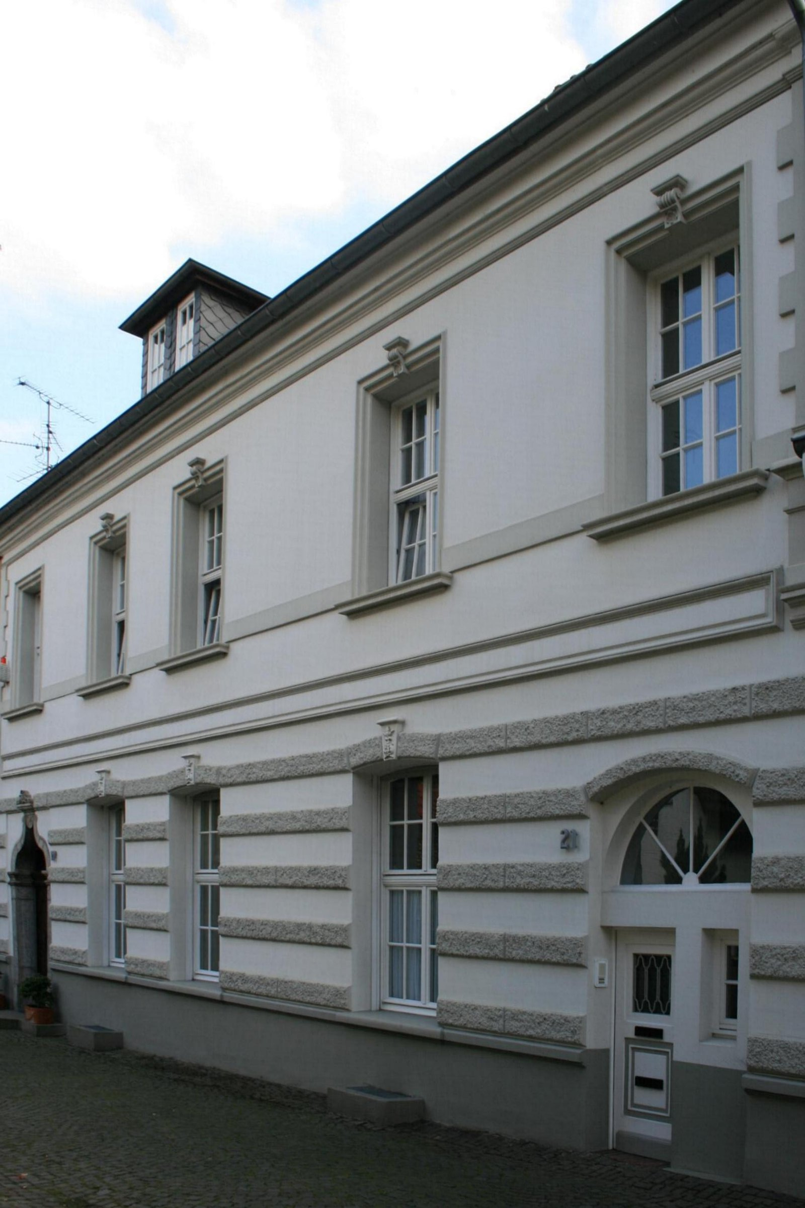 Cultural heritage monument No. K 036 in Mönchengladbach